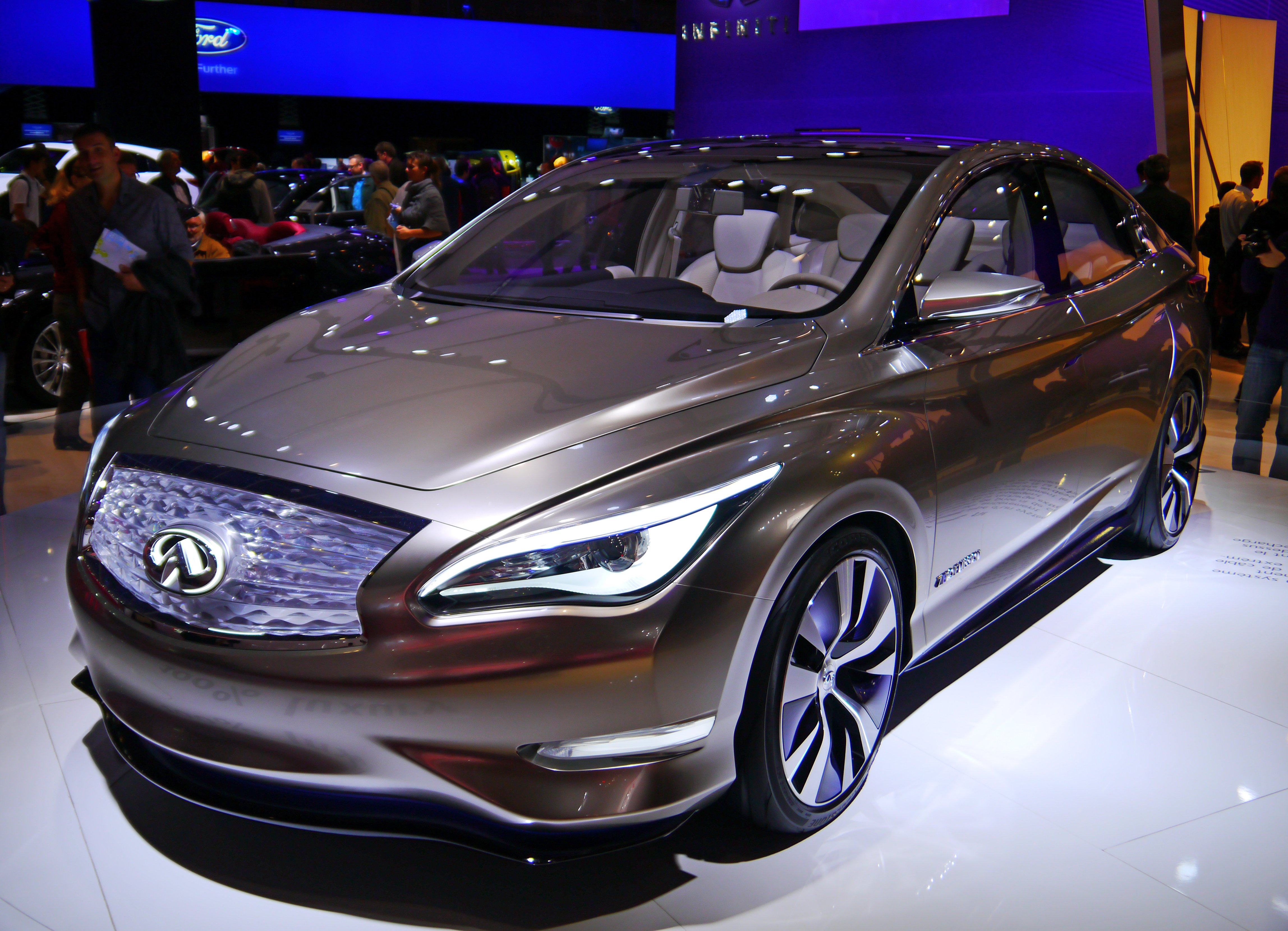 Infiniti LE Concept - powered by a 100 kW (134 hp), 325 N·m (240 ft·lb) electric motor. A key feature of the LE is its inductive wireless charging. The vehicle can be charged by parking it over a charge point located in the floor, rather than plugging into an electrical outlet.